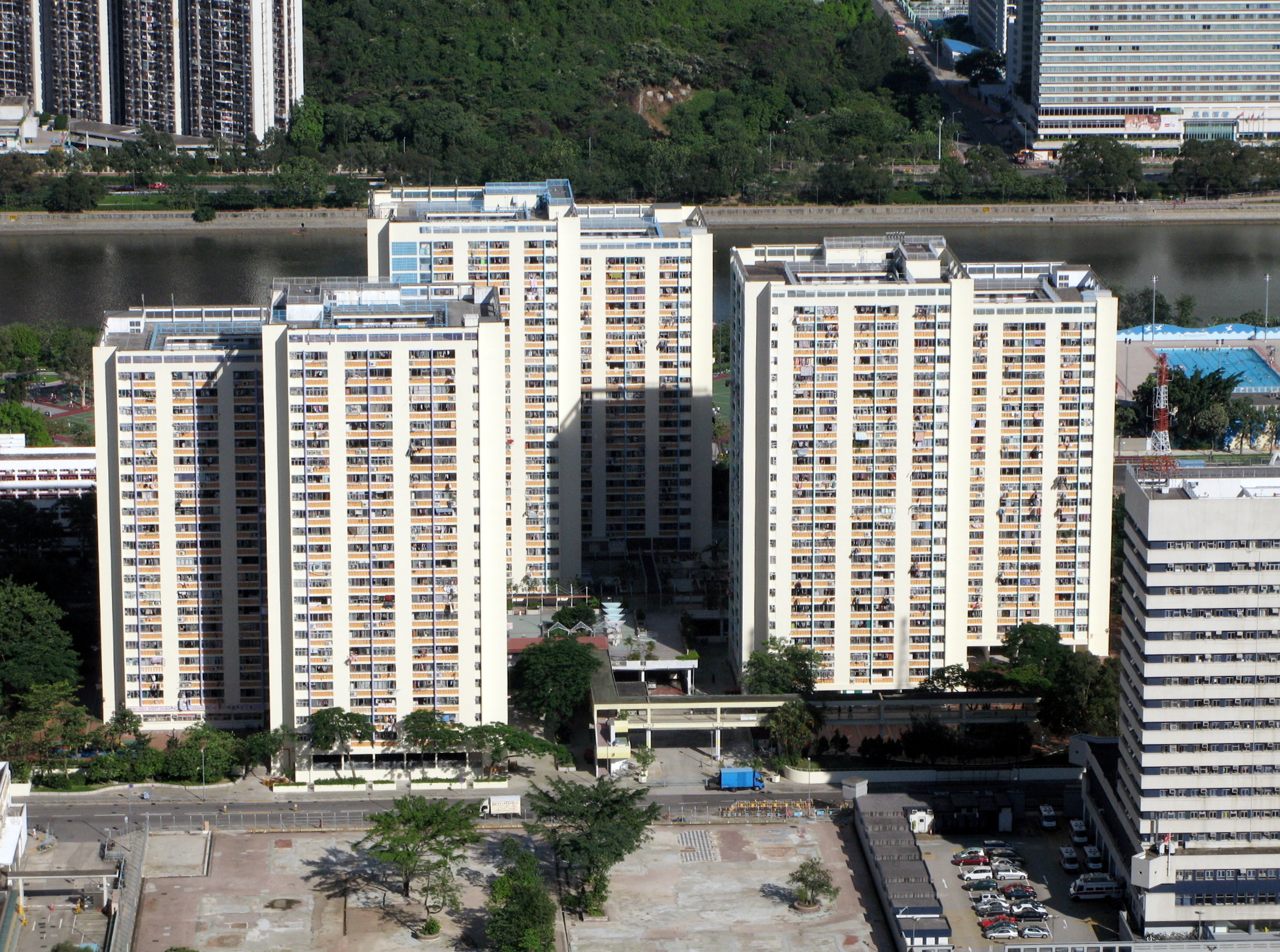 Wo Che Estate Phase 1